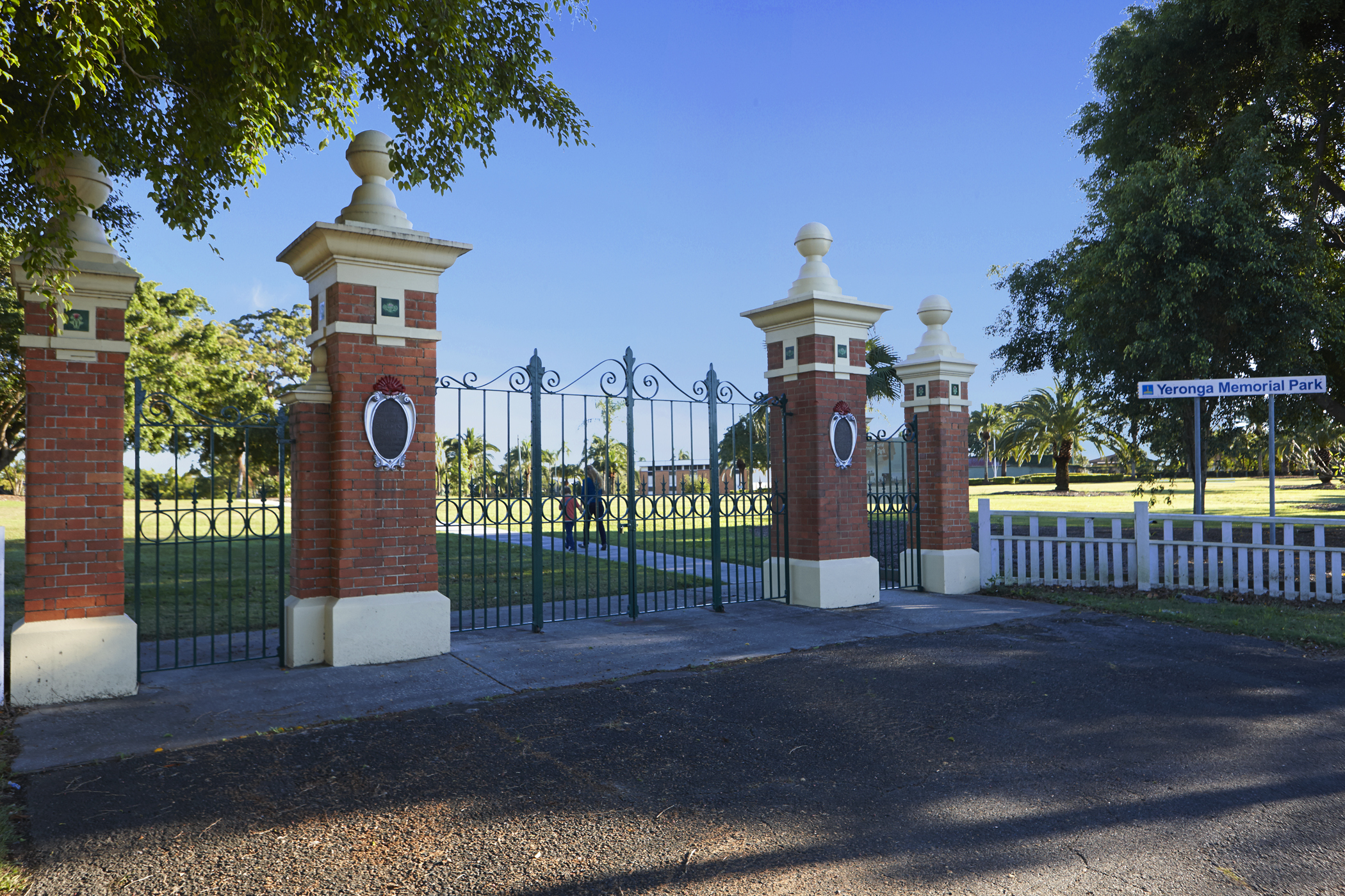 Gates at the entrance to Yeronga Memorial Park